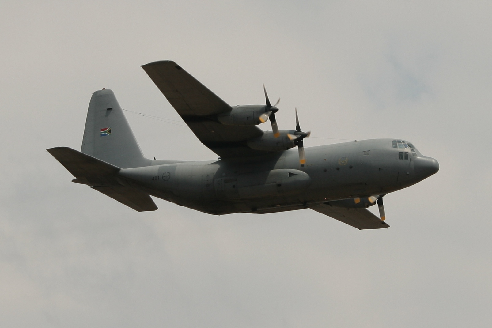 South African Air Force C-130 Hercules